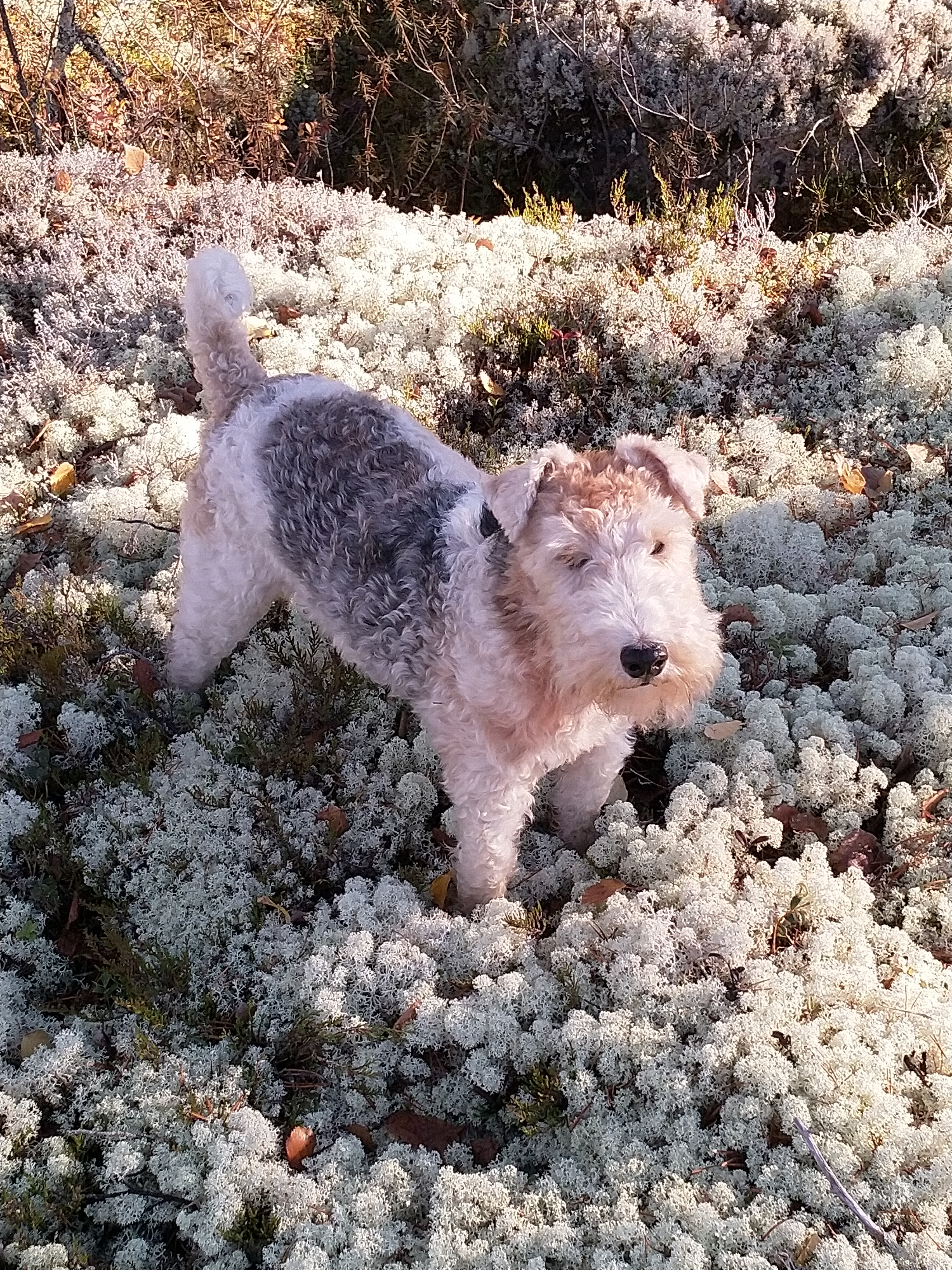 Huntingseasons 2018